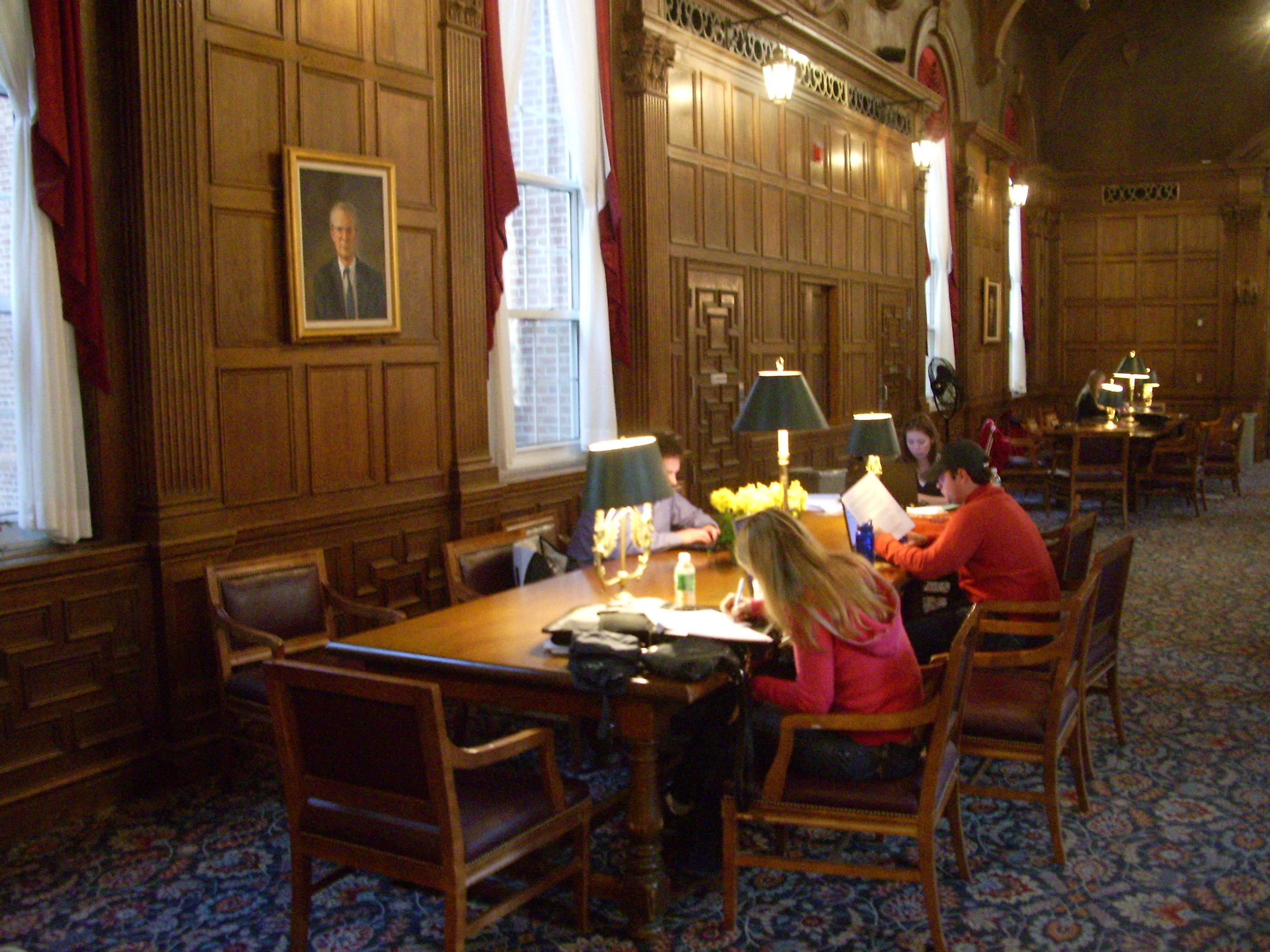 Photograph of students studying in Stell Hall at the campus of the Tuck School of Business at Dartmouth College in Hanover, New Hampshire.